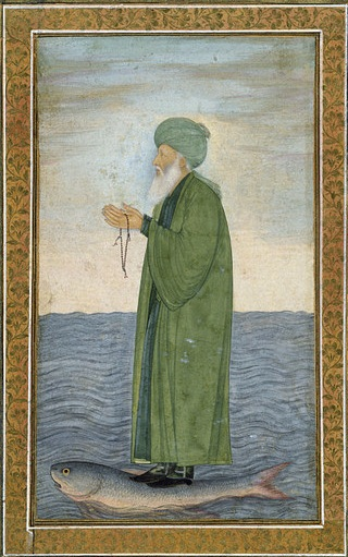 Muslim sage Al-Khizr as shown in a Mughal era manuscript miniature. Kept in the Victoria and Albert Museum, London, inventory number IS.48:12/A-1956. Opaque watercolour on paper. Central painting 14 cm x 8.5 cm. The painting is in a double frame on a page with floral and foliated scrolling patterns and outlines in gold, white black and a pale blue ruled outer line on the main border (now shown). It is part of the Small Clive Album of Indian miniatures, thought to have been given by Shuja ud-Daula, the Nawab of Avadh, to Lord Clive during his last visit to India in 1765-67. Sold from Powis Castle at Sotheby's sale, 16 to 18 January 1956, lot 332A. Literature: Leach, Linda York, Mughal and Other Indian Paintings from the Chester Beatty Library, London, 1995, vol. II, No.6.239, p.662.